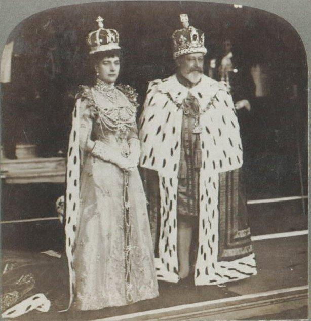 Queen Alexandra and King Edward VII in Coronation Robes